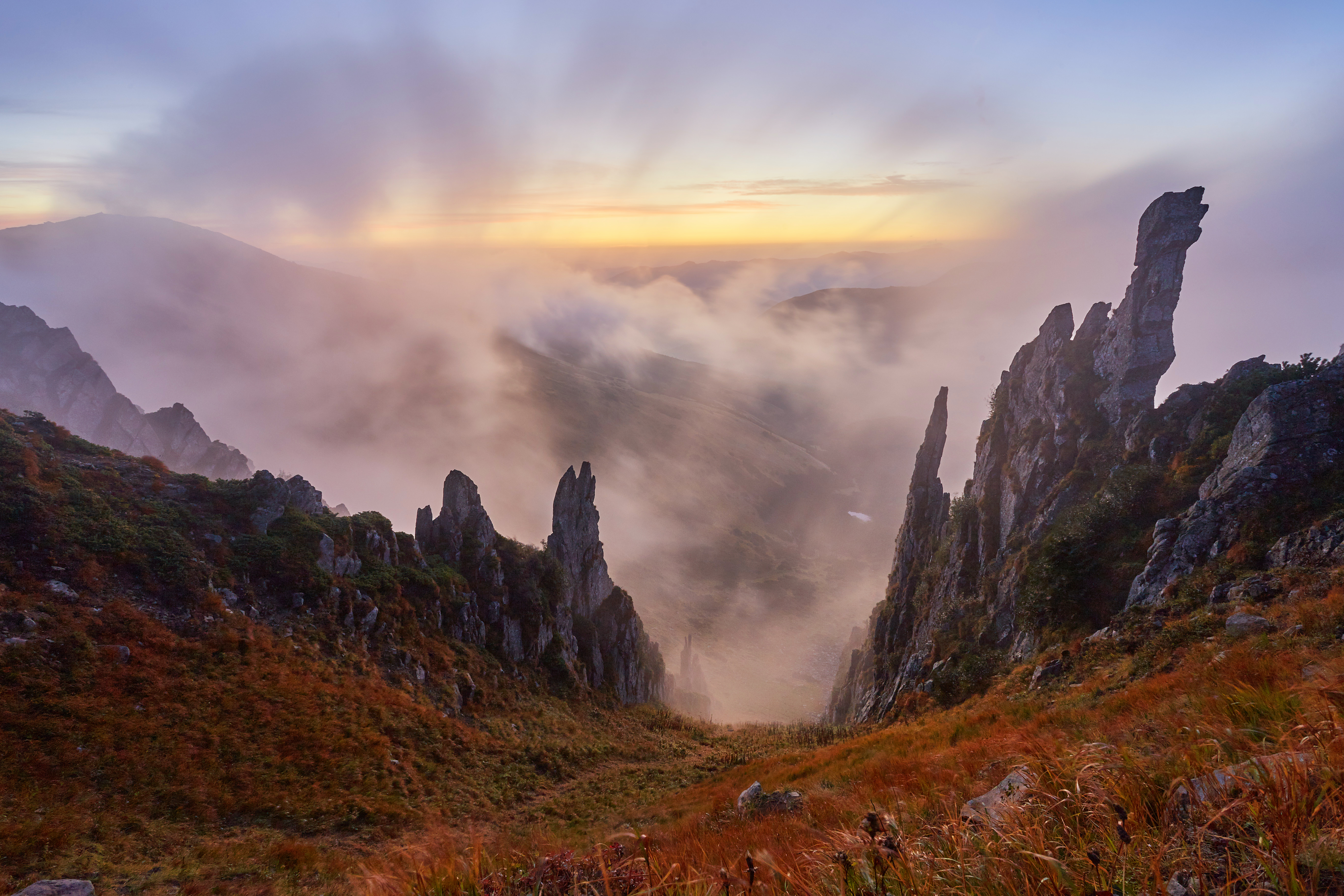 Shpytsi peak in Chornohora mountain range in Western Ukraine